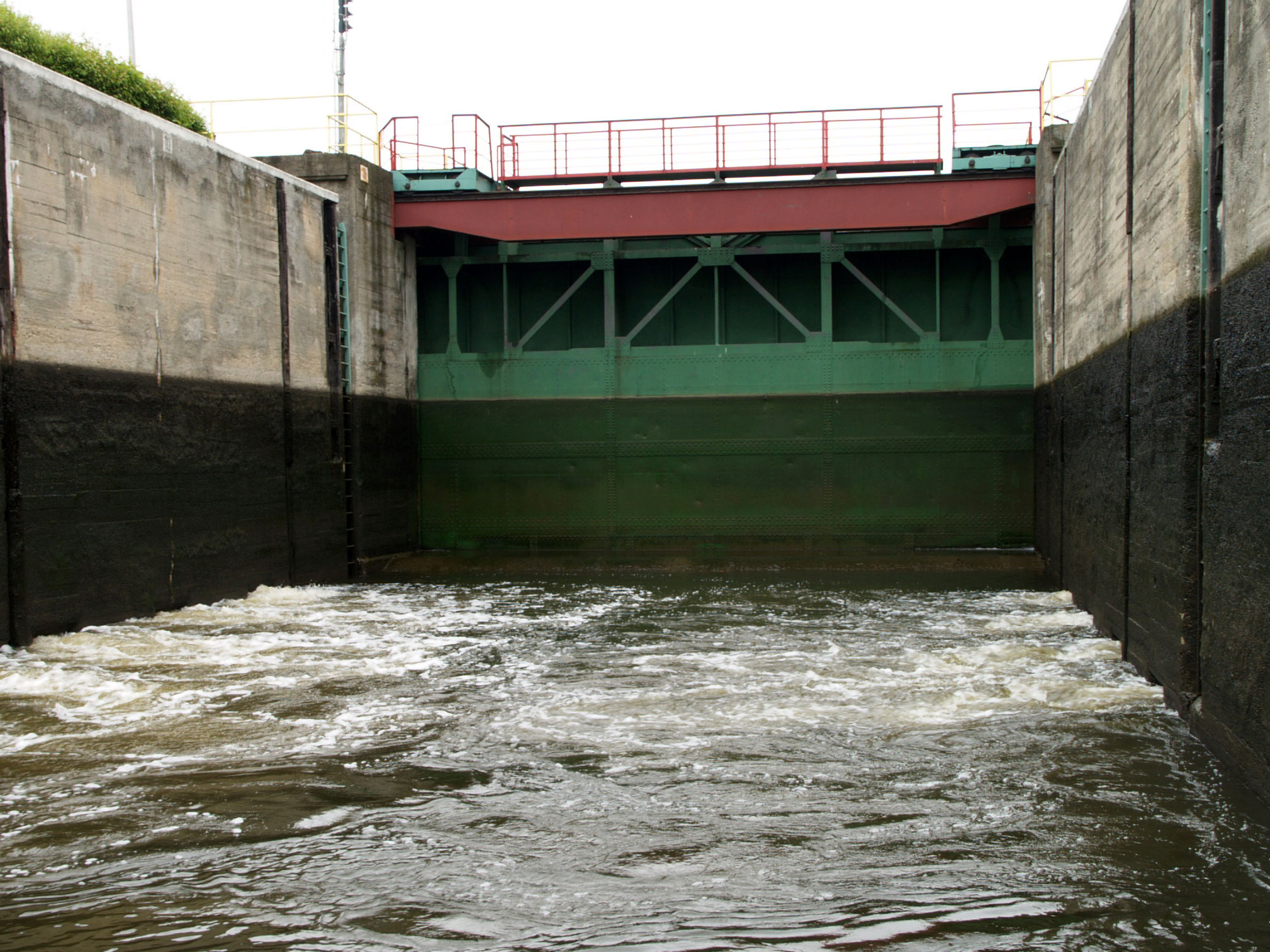 Lock on Kanał Żerański filling with water, Poland